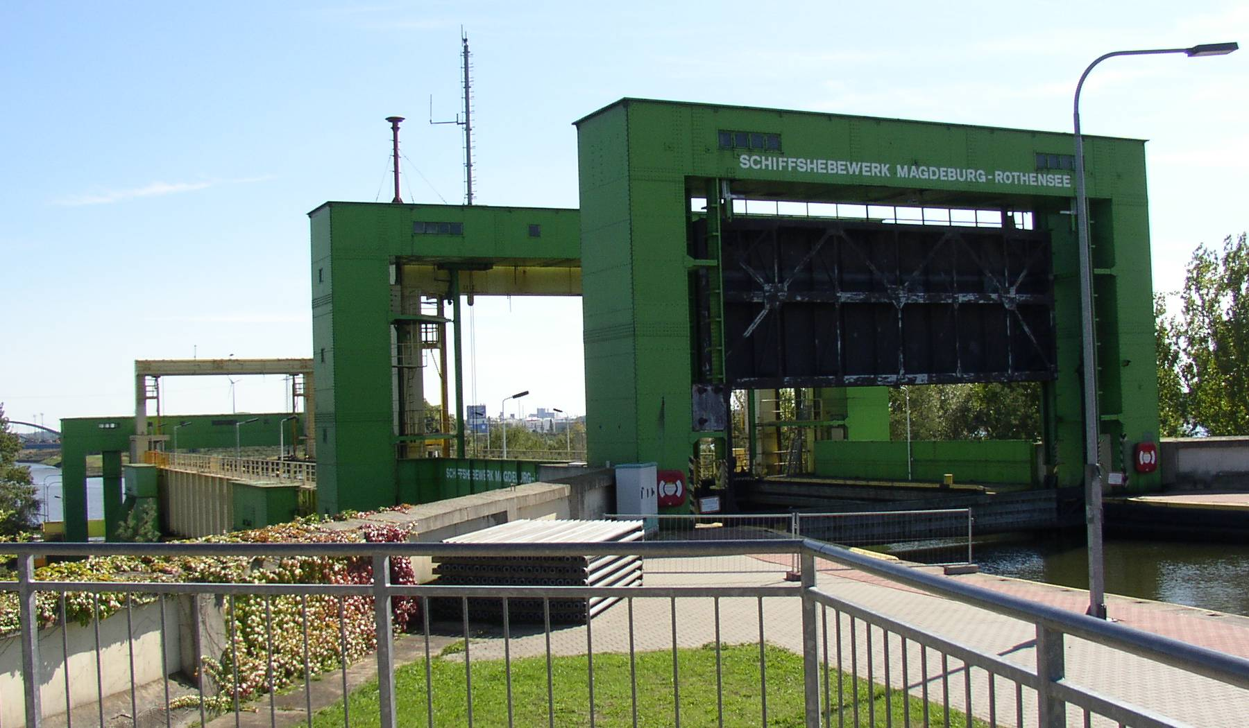 Ship lift in Magdeburg-Rothensee in Saxony-Anhalt, Germany